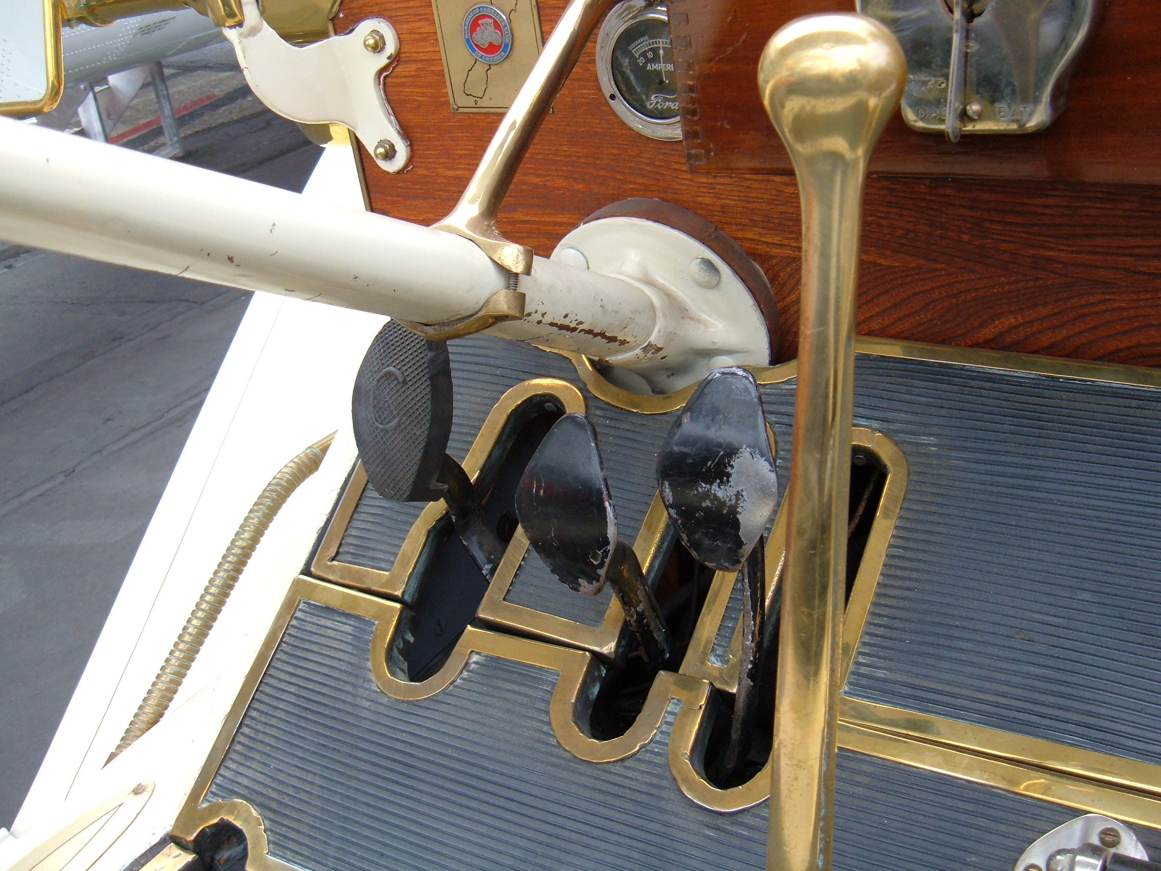 The pedals of a 1913 Ford Model T Speedster on display at the Wings over Wine Country 2008 air show at the Charles M. Schulz - Sonoma County Airport in Sonoma County, California.